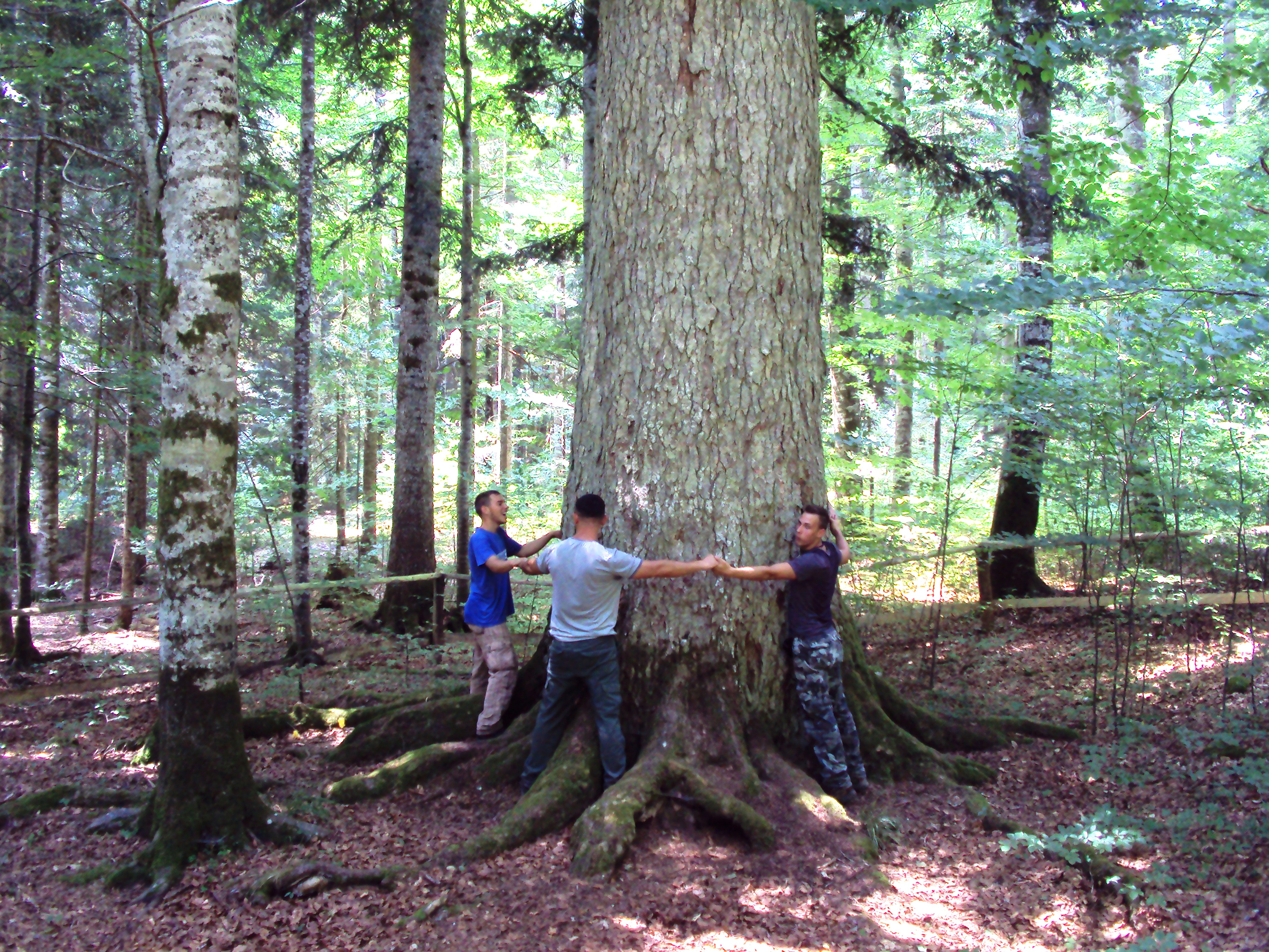 The giant fir tree called - Fir Tsar in Croatia.